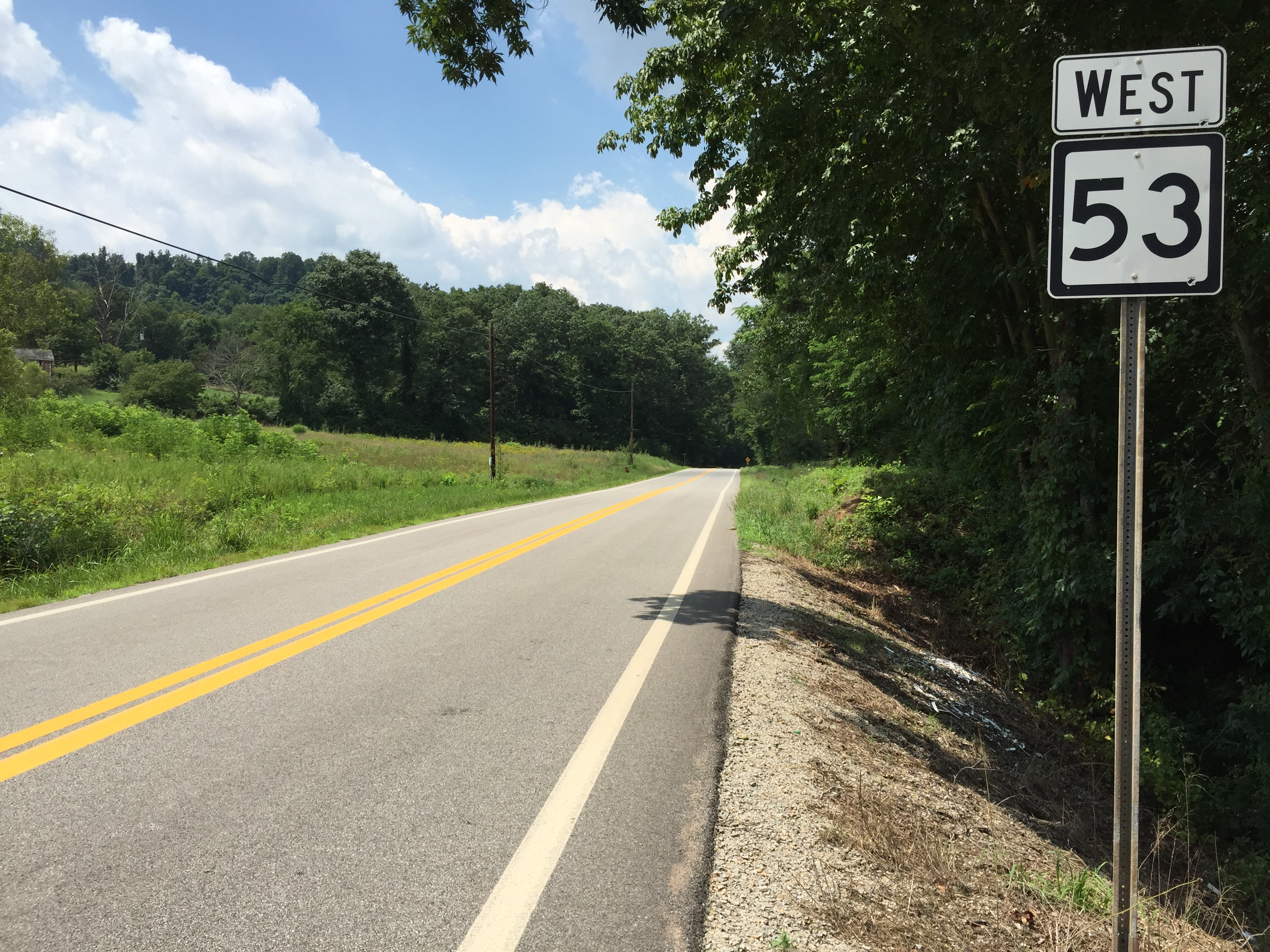 View west along West Virginia State Route 53 just west of Newark Road (Wirt County Route 6) just east of Elizabeth in Wirt County, West Virginia